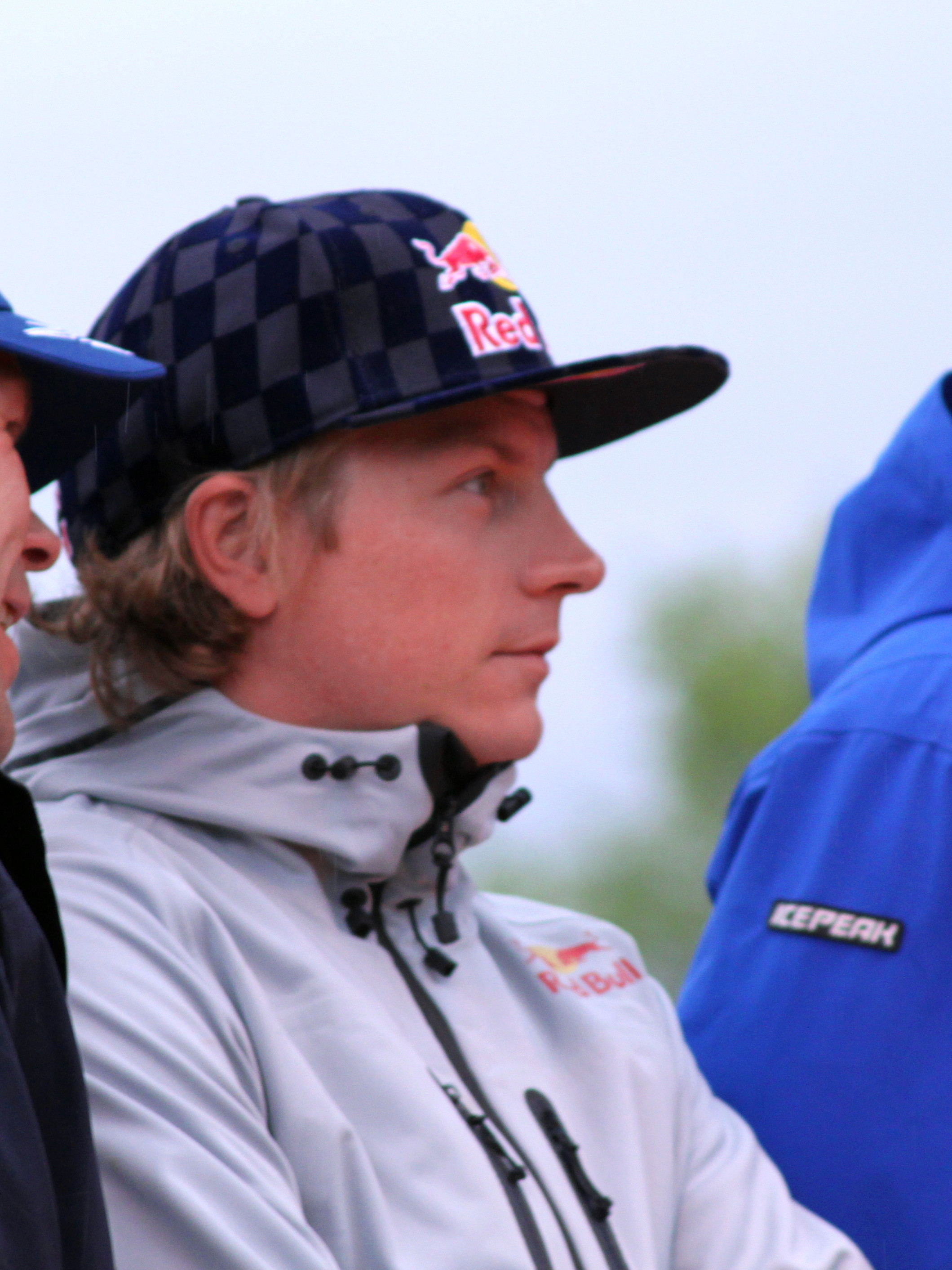 Kimi Räikkönen - 41'st Rally Bulgaria 2010